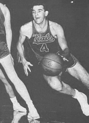 Professional basketball player Dolph Schayes